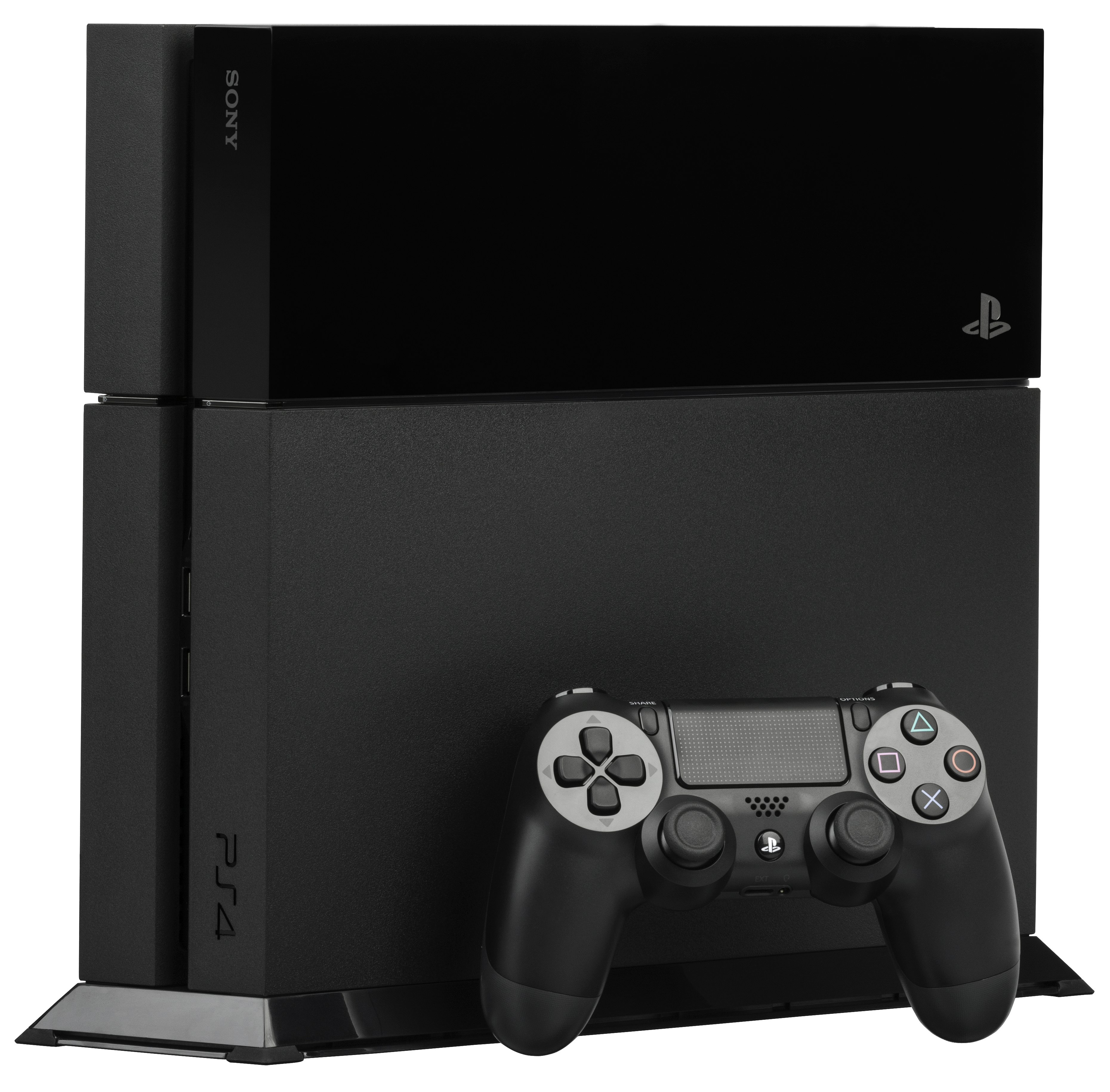 The Sony PlayStation 4 (PS4), an eighth generation video game console released in 2013. The PS4 is shown here with the DualShock 4 controller and an optional vertical stand.